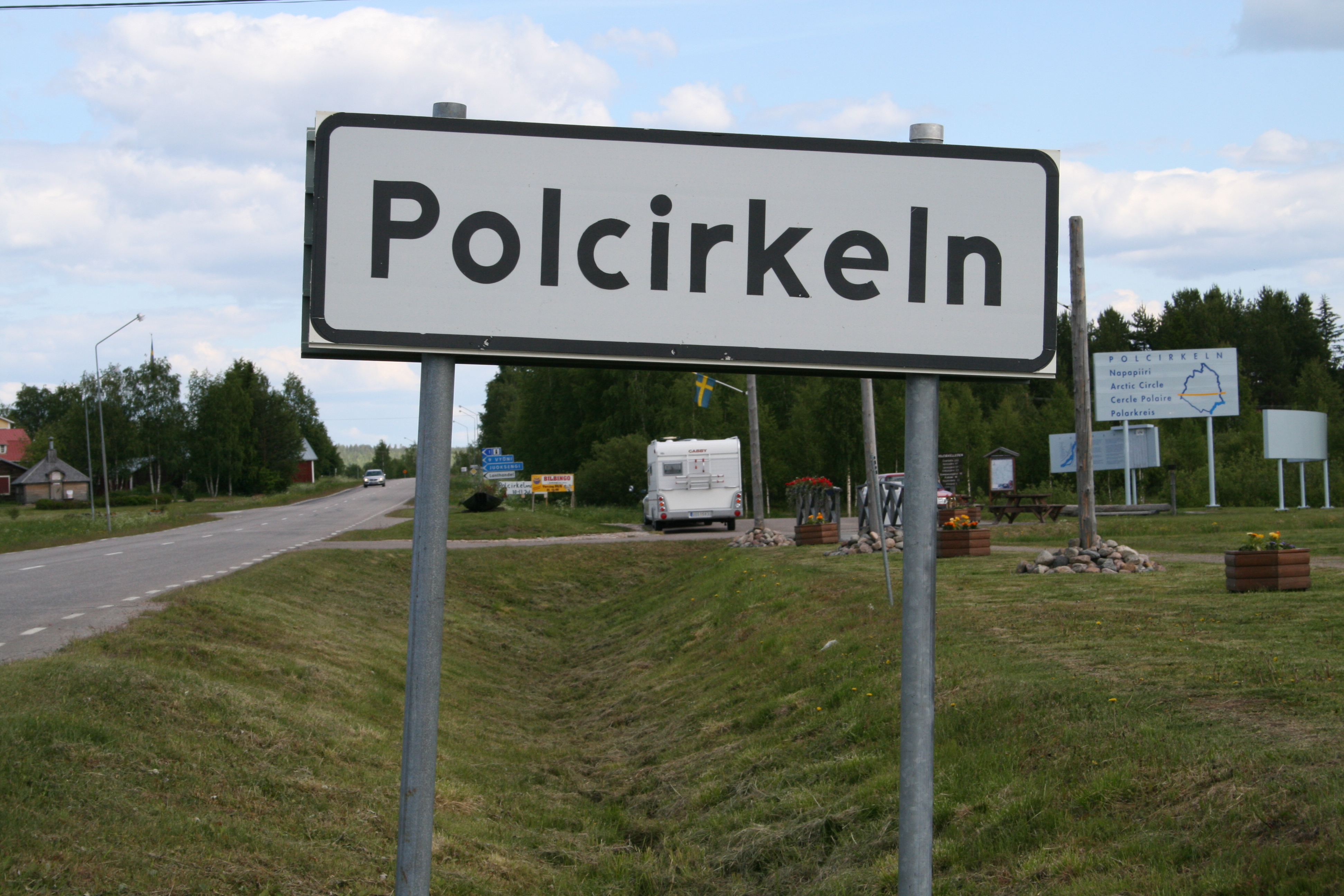 Polcirkeln at the village Juoksengi, Sweden